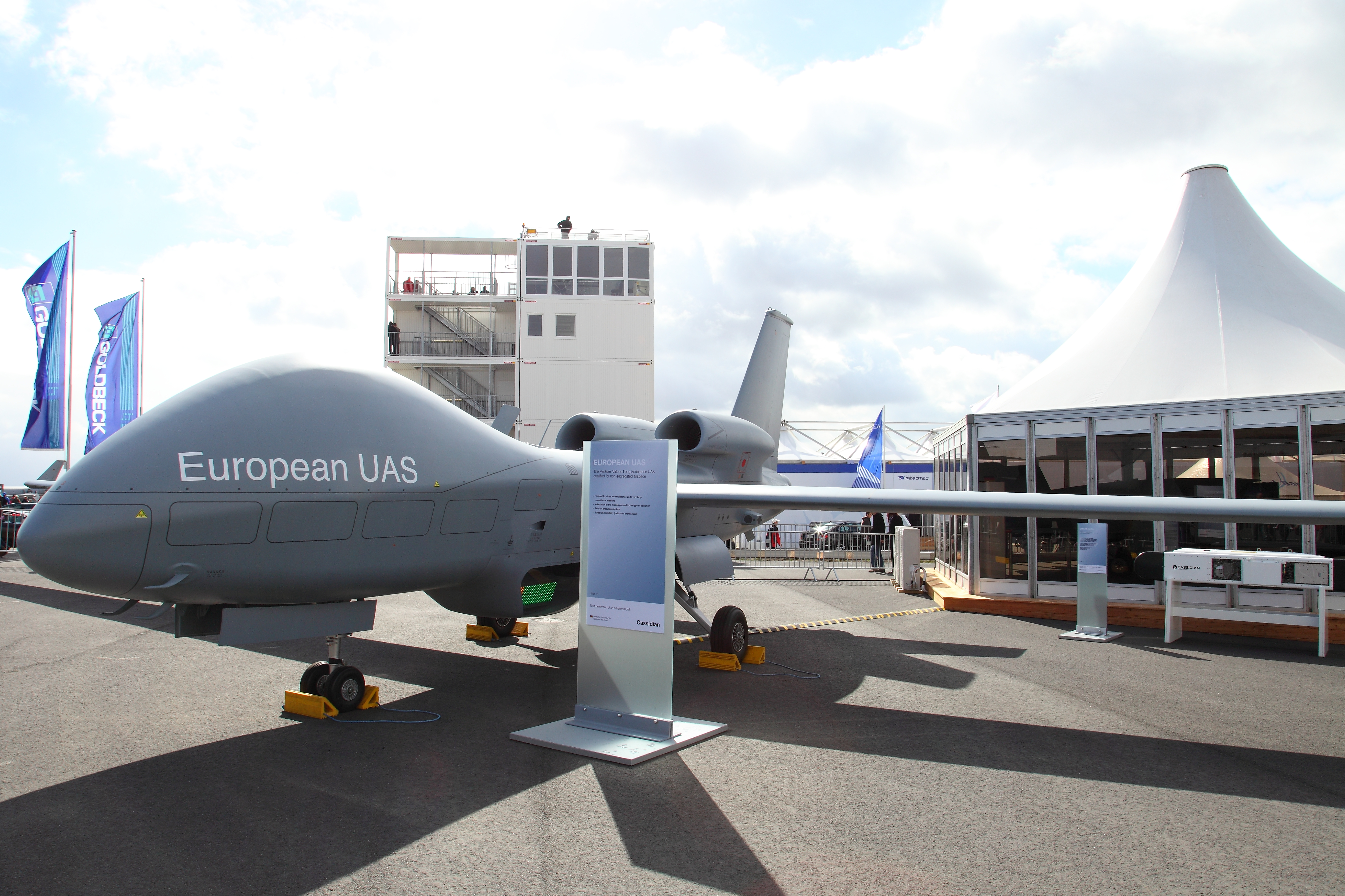 ILA Berlin Air Show 2012; European UAS. Unmanned Aircraft Systems. He is the former project Talarion.